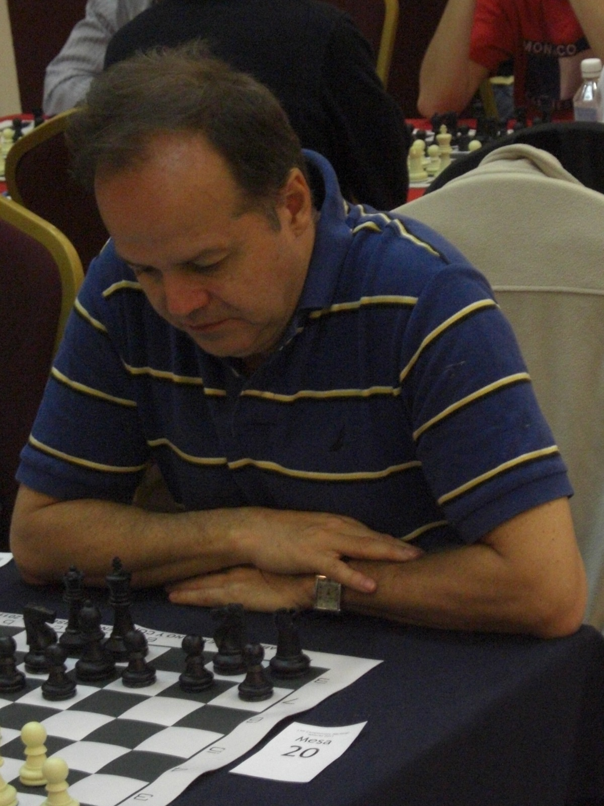 Alonso Zapata during the American Continental Chess Championship in Toluca (Mexico), April 2011